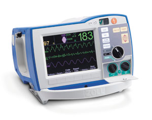 Semi-automated external monitor defibrillator with capability to be professional AED or manual defibrillator